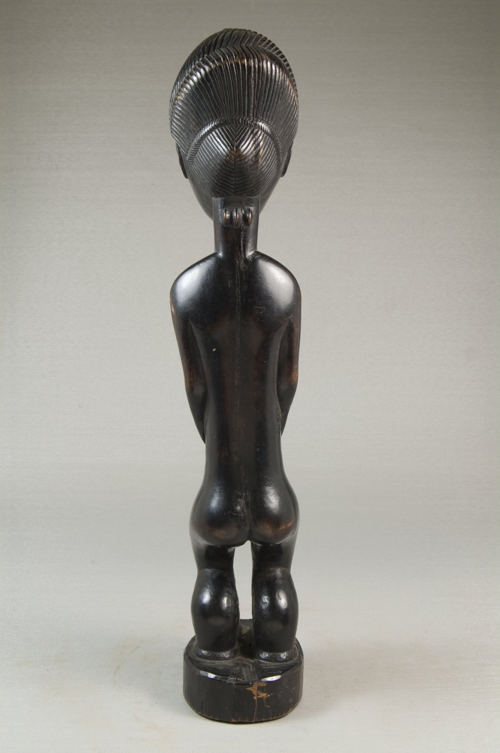 Male Figure (Blolo bian)